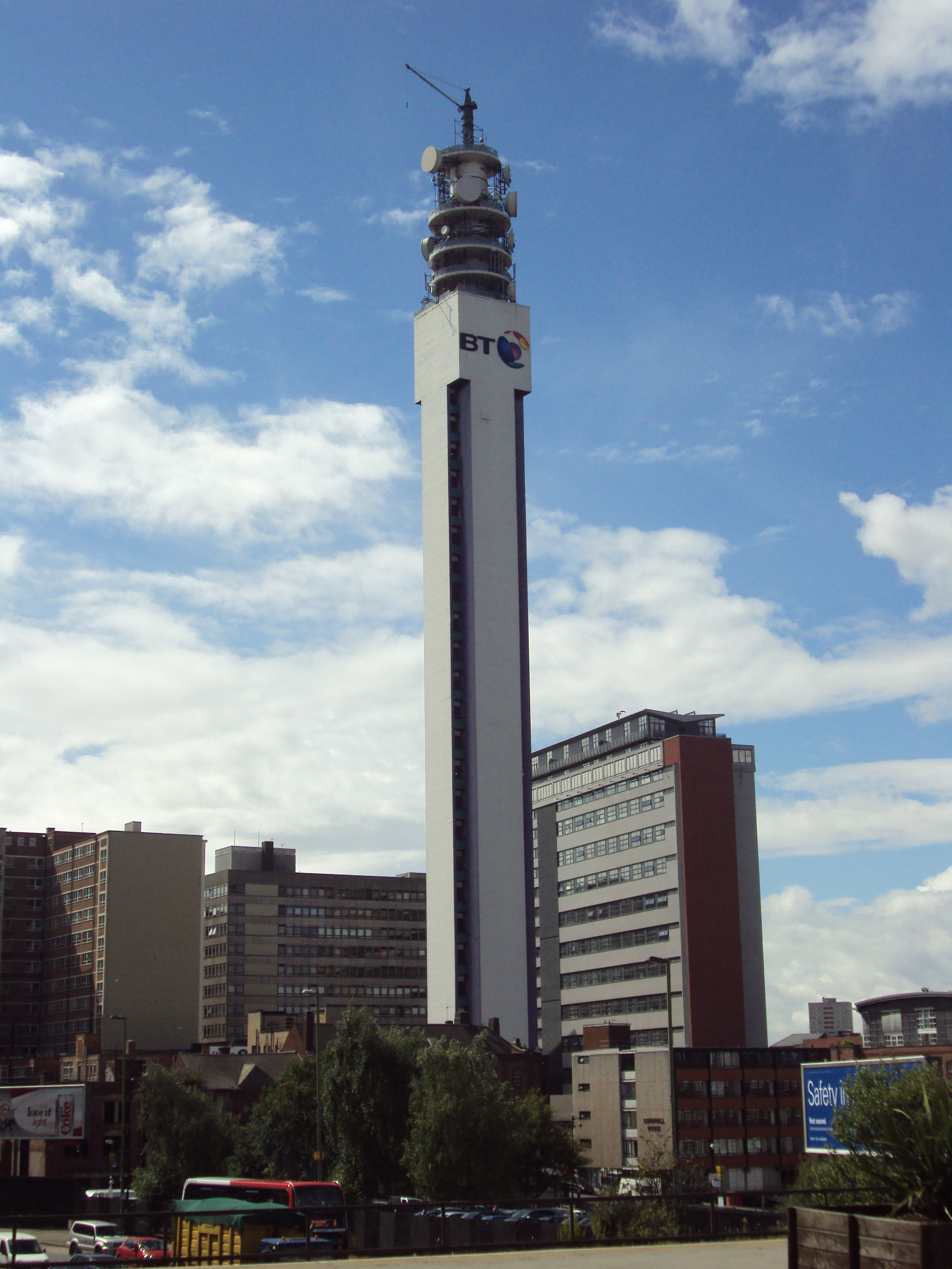 BT Tower, Lionel Street, Birmingham, England as seen from Snow Hill railway station.